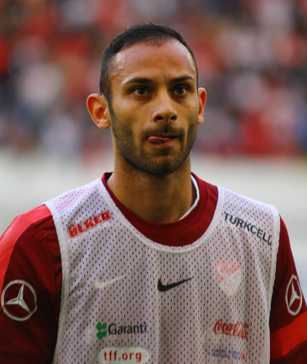 Turkish international football player Ömer Toprak